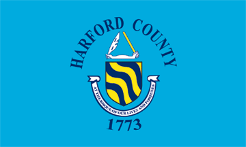 Flag of Harford County, Maryland